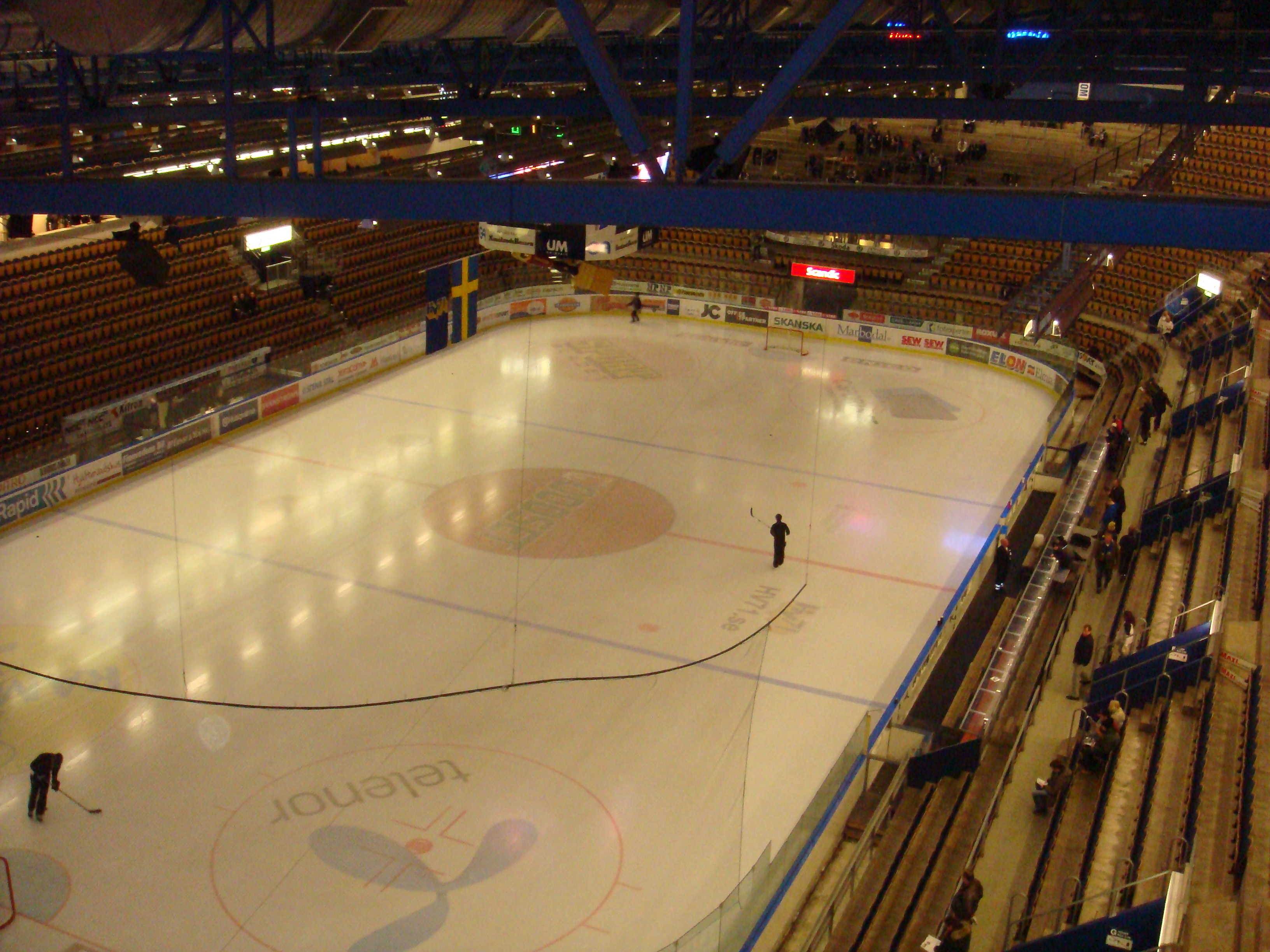 Kinnarps Arena from the Skybar above the south stand during the Elitserien game HV71-Frölunda HC (2-3).